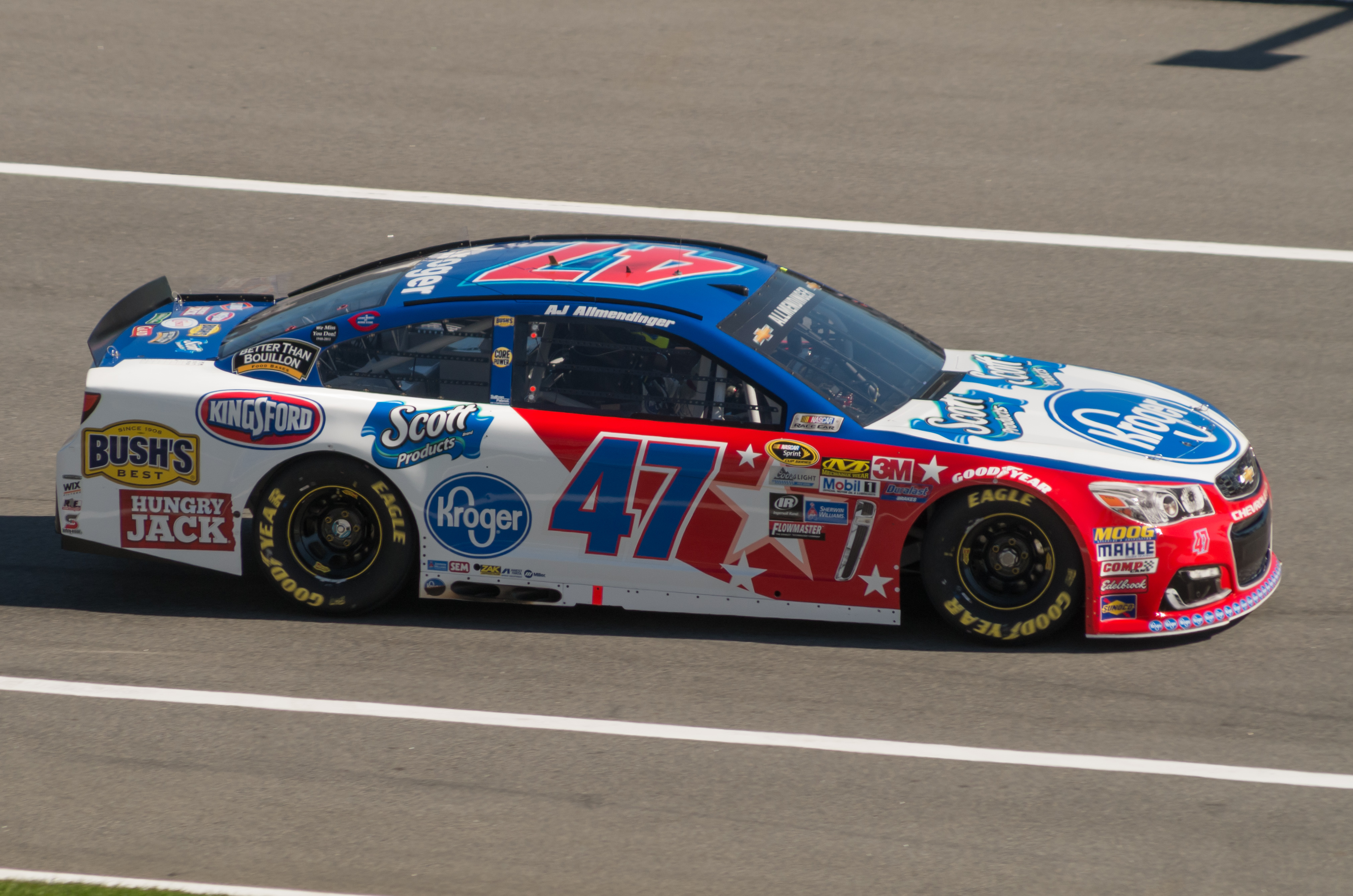 A.J. Allmendinger